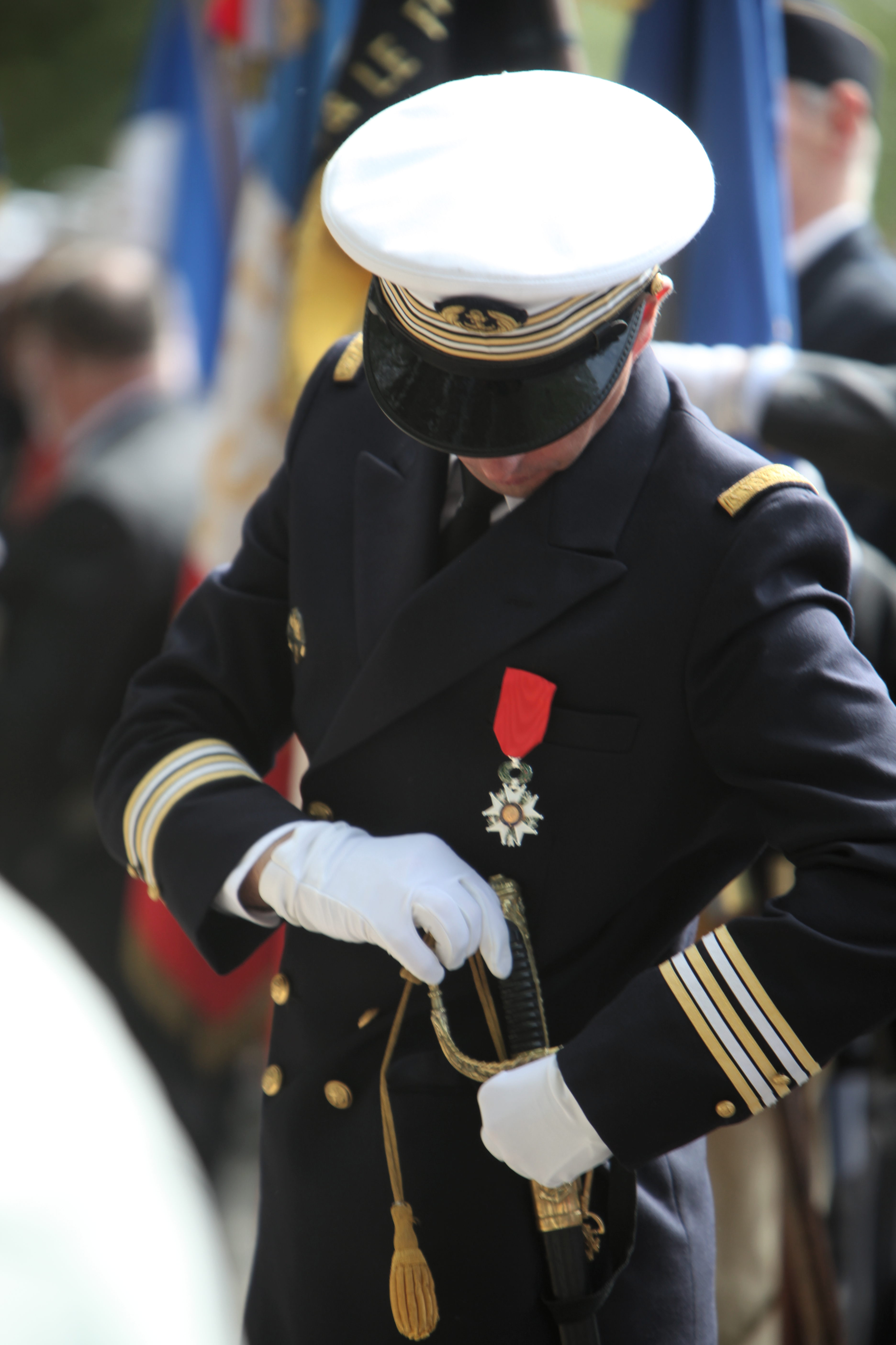 Commander of the French Navy attending ceremonies of the 14 July 2015 in Brest